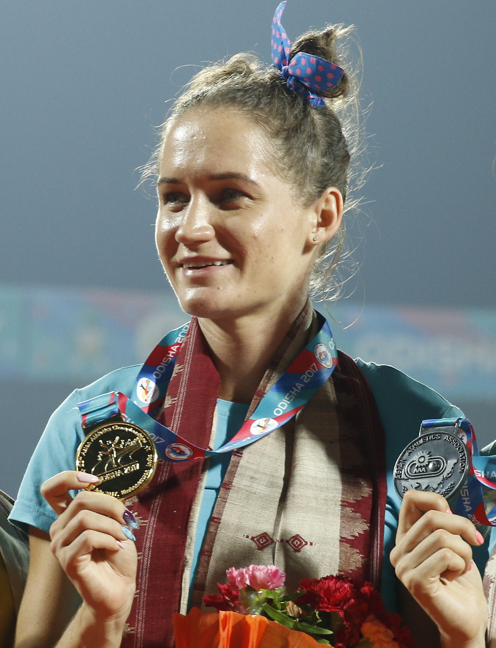 2017 Asian Athletics Championships at the Kalinga Stadium in Bhubaneswar, India